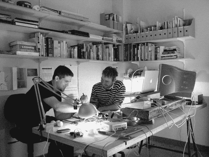 Kortunefookie's team at work, University of Quebec in Outaouais, 2008